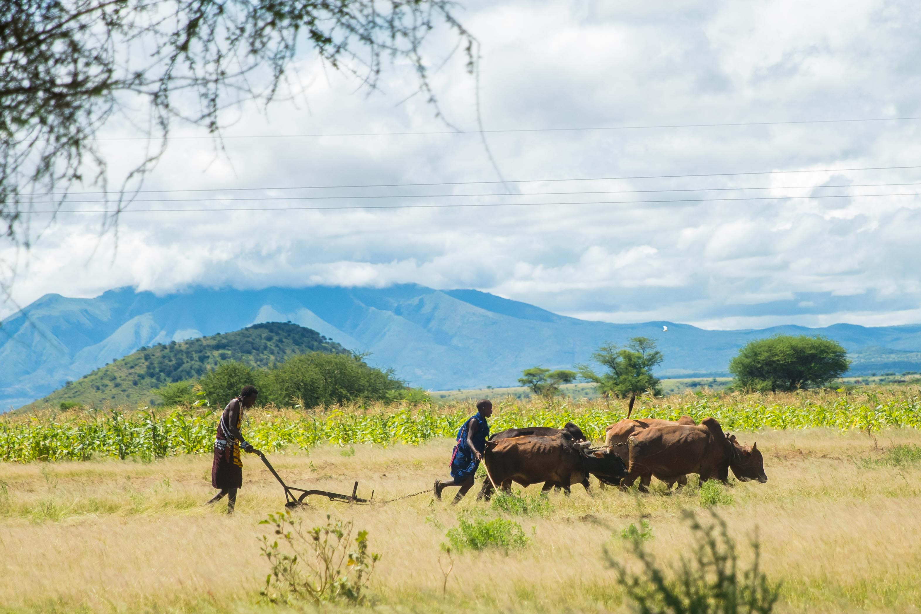 This is an image with the theme "Africa on the Move or Transport" from: Tanzania